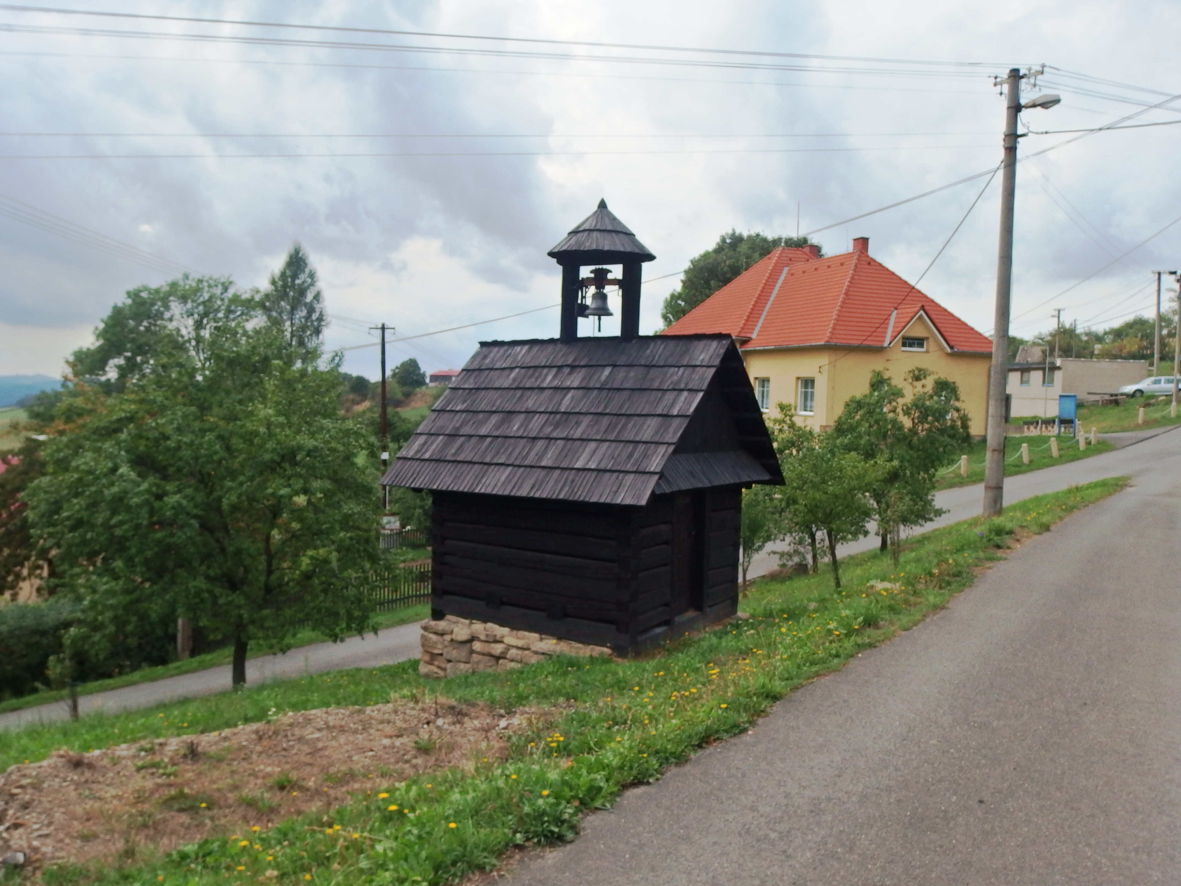 Velká Lhota, Vsetín District, Czech Republic, part Malá Lhota.